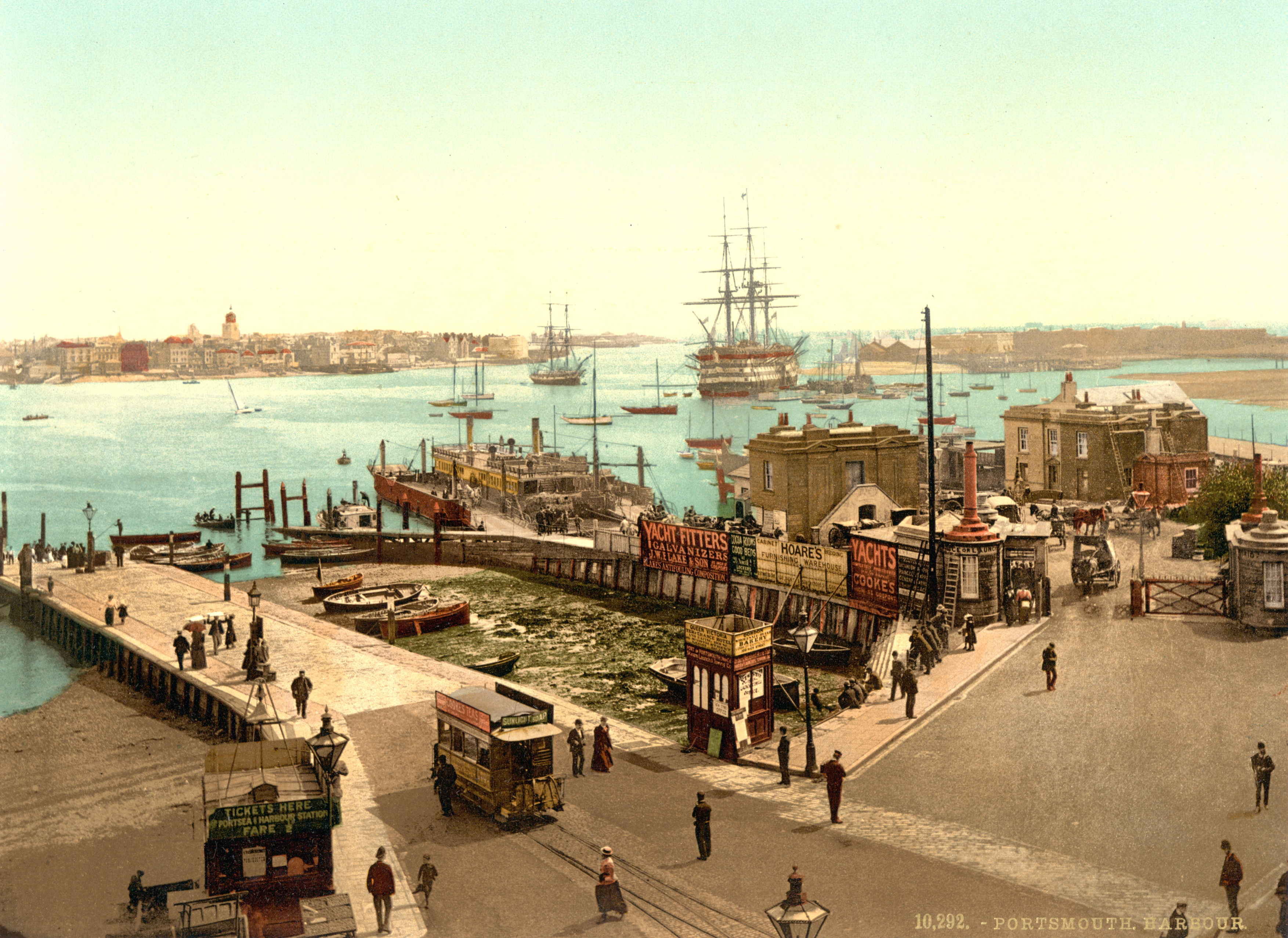 Photograph of the entrance of Portsmouth harbour taken from Gosport